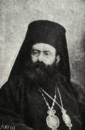 Portrait of Gregory Orologas metropolitan bishop of Kydonies (in Ayvalik, modern Turkey)